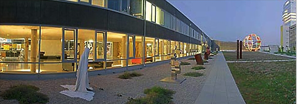 Skulpturenparkk Artpark Linz, 2006